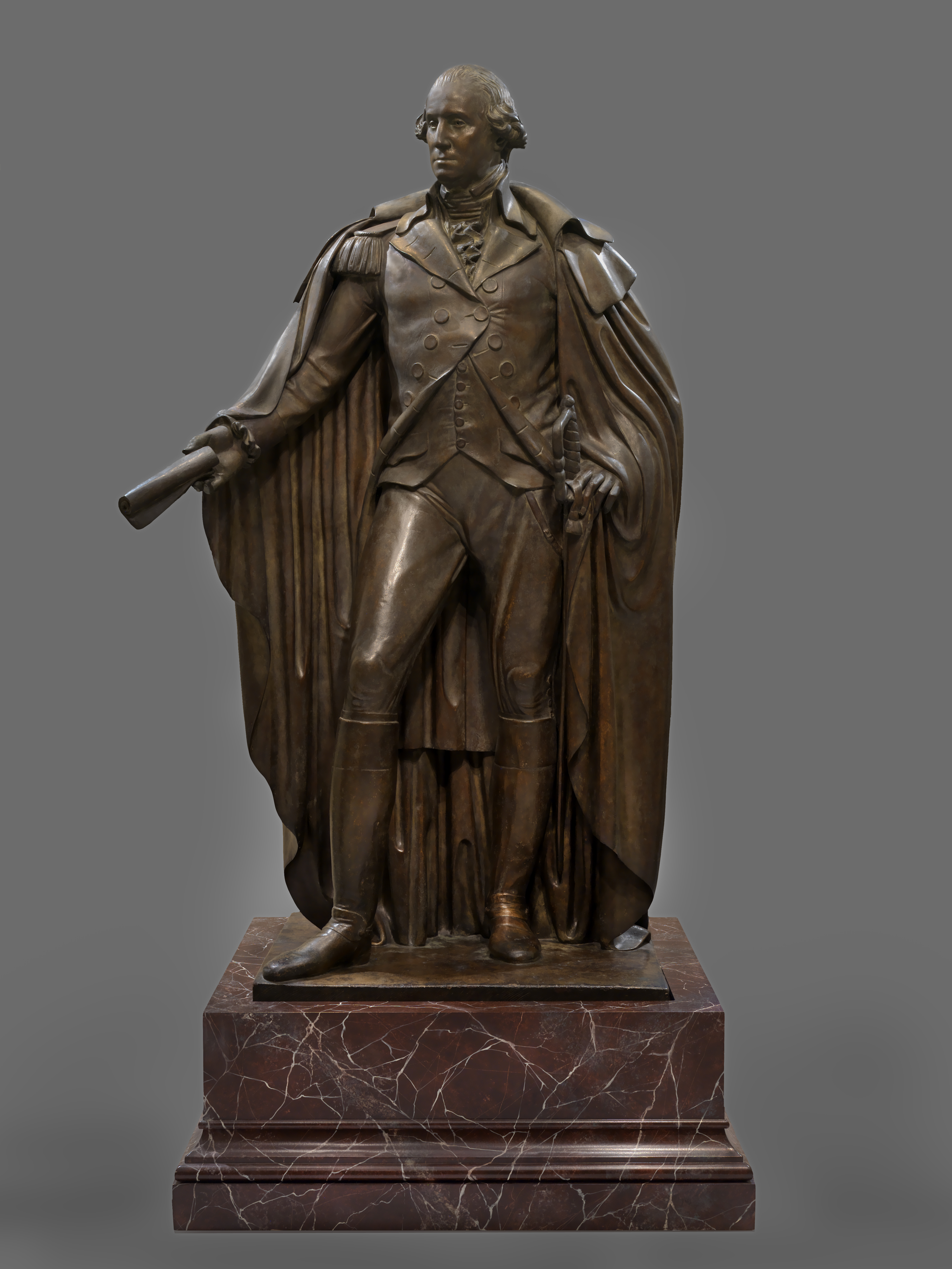 Depicts George Washington’s resignation as commander-in-chief of the Continental Army to the Continental Congress, then meeting at the Maryland State House in Annapolis, Maryland on December 23, 1783.